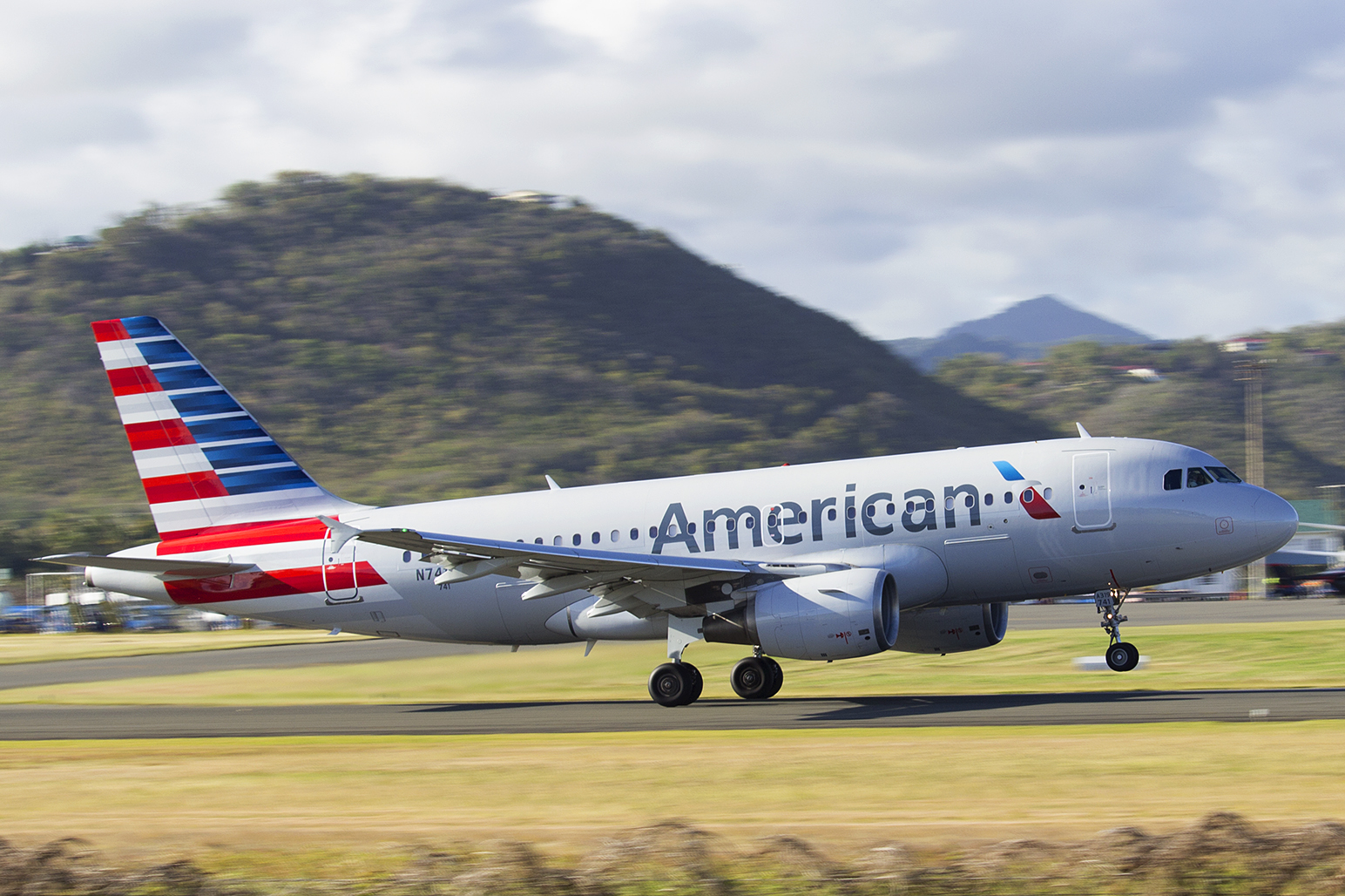 American Airlines A319 departure to Philadelphia